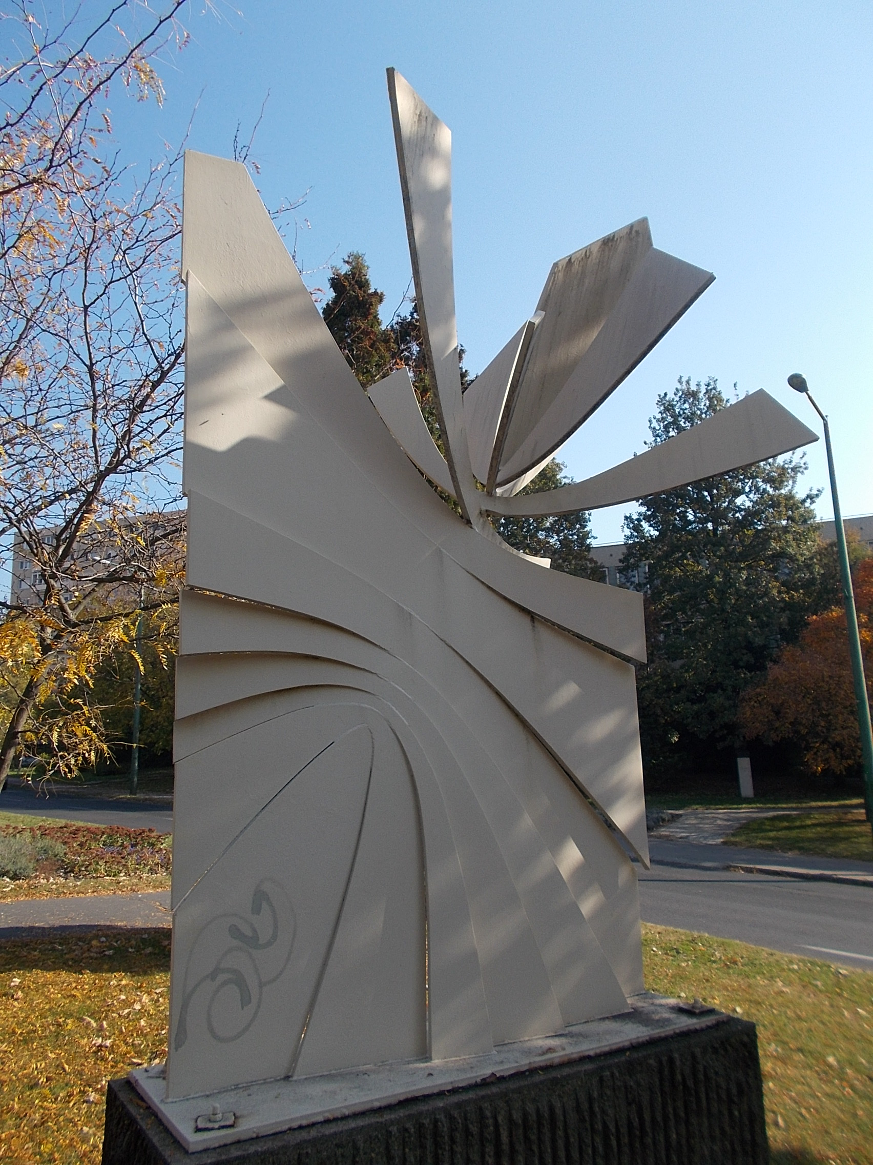 Iron flower by Enikő Szöllőssy (1977 painted steel sculpture) in a Park at Apáczai Csere János Street, Dunaújváros, Fejér County, Hungary.